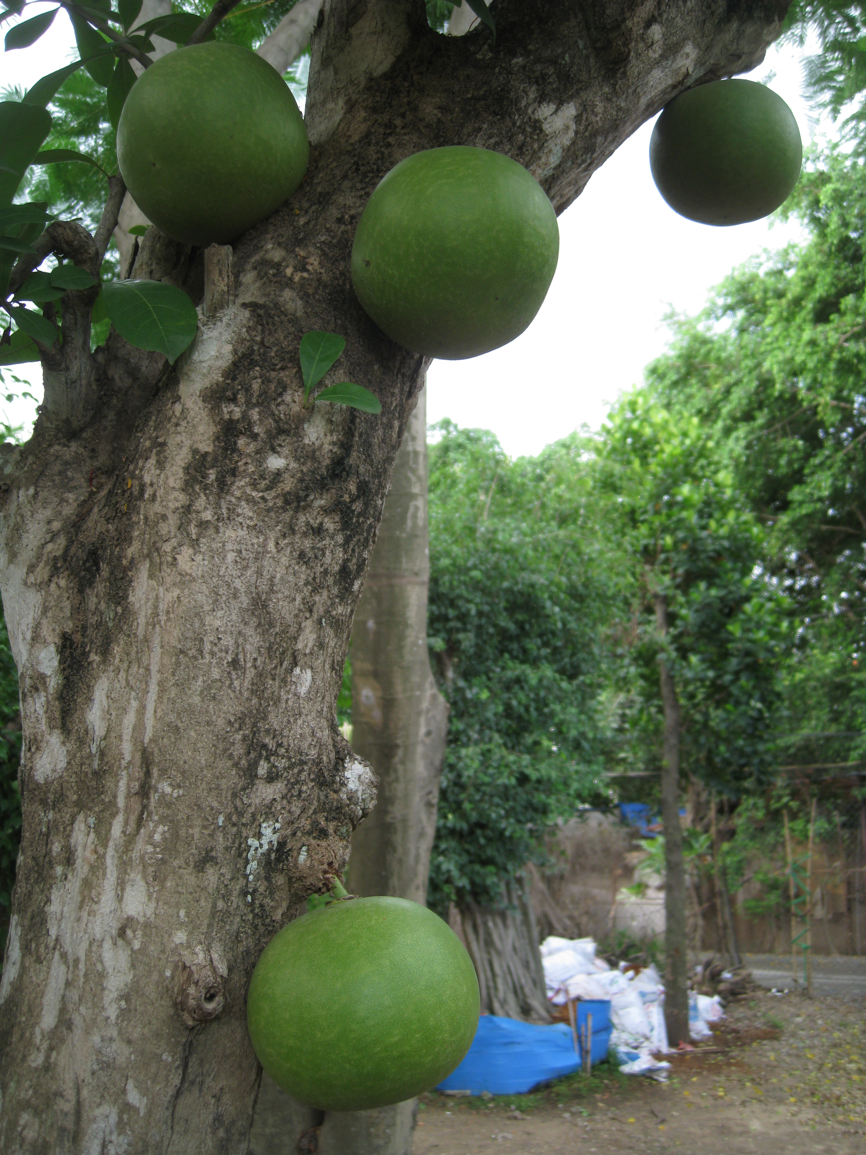 Fruits of Crescentia cujete in Ho Chi Minh City.